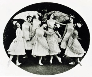 Ol'ga Preobrazhenskaya (or Olga Preograjenskaya? this was in the file name at the original source) as Odette with Swans, 1895